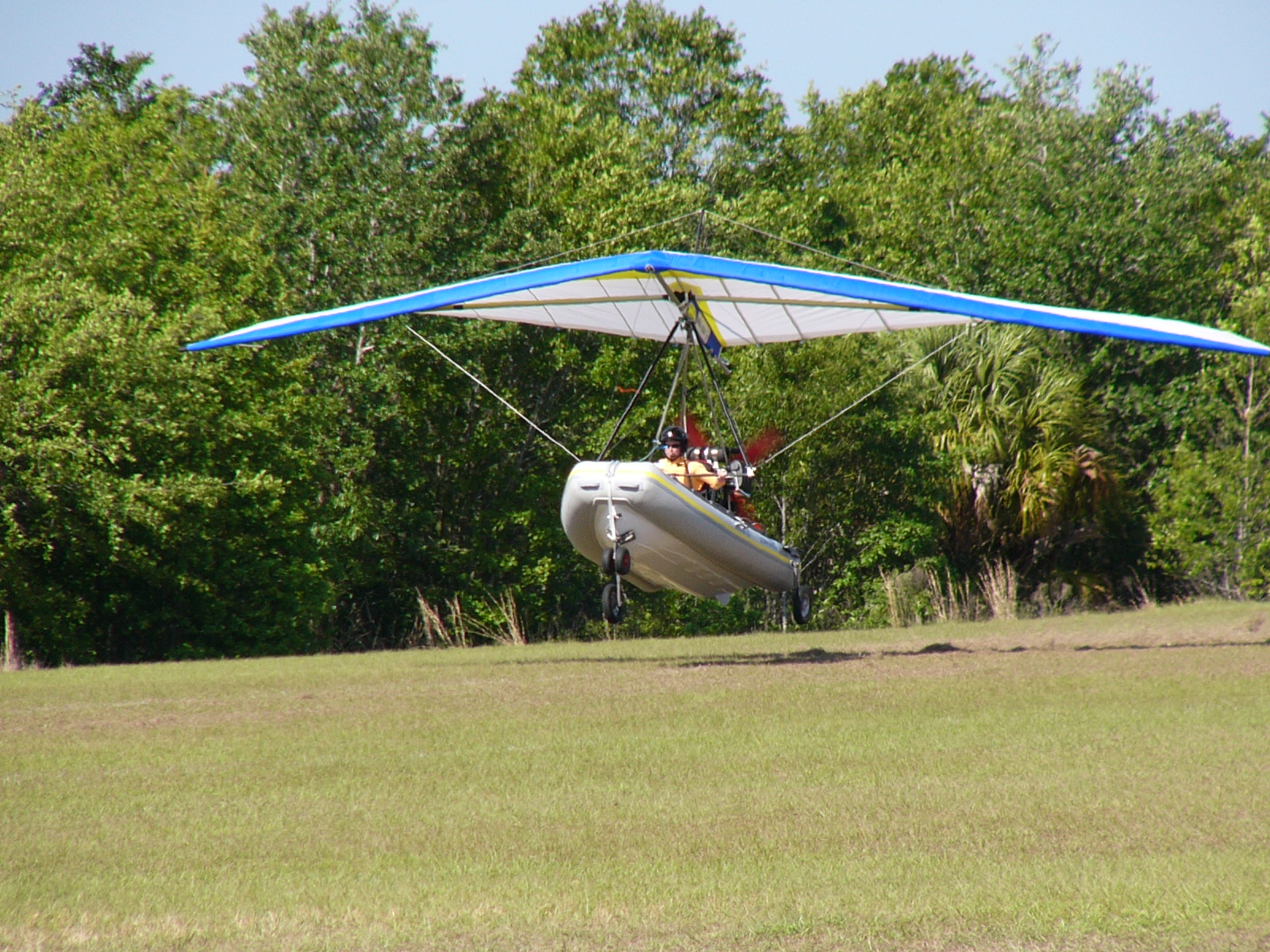 Polaris AM-FIB Flying Inflatable Boat seen at Sun 'n Fun 2004